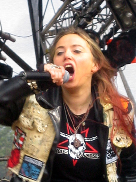 Sabina Classen at a live concert